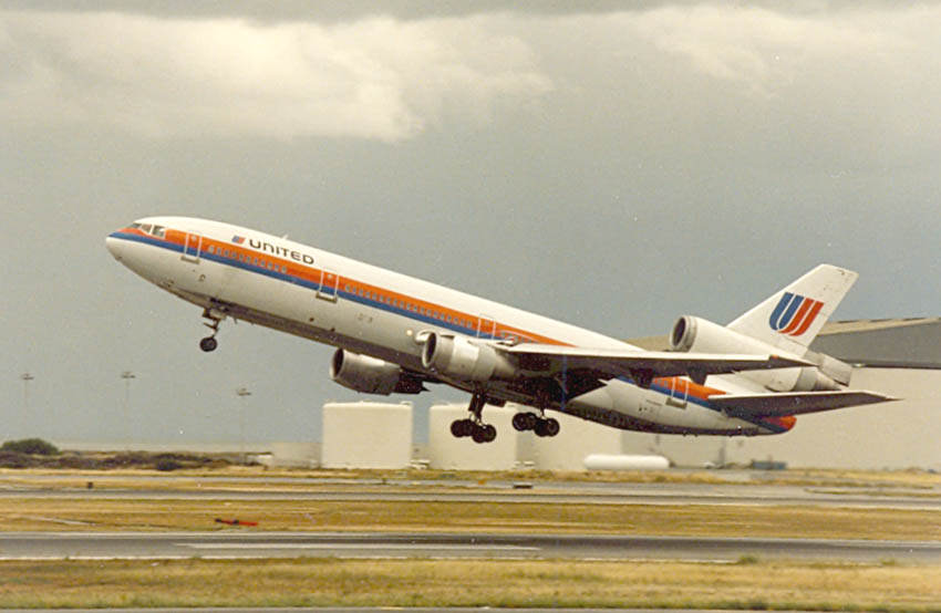 McDonnell Douglas DC-10 of United Airlines at San Francisco International Airport